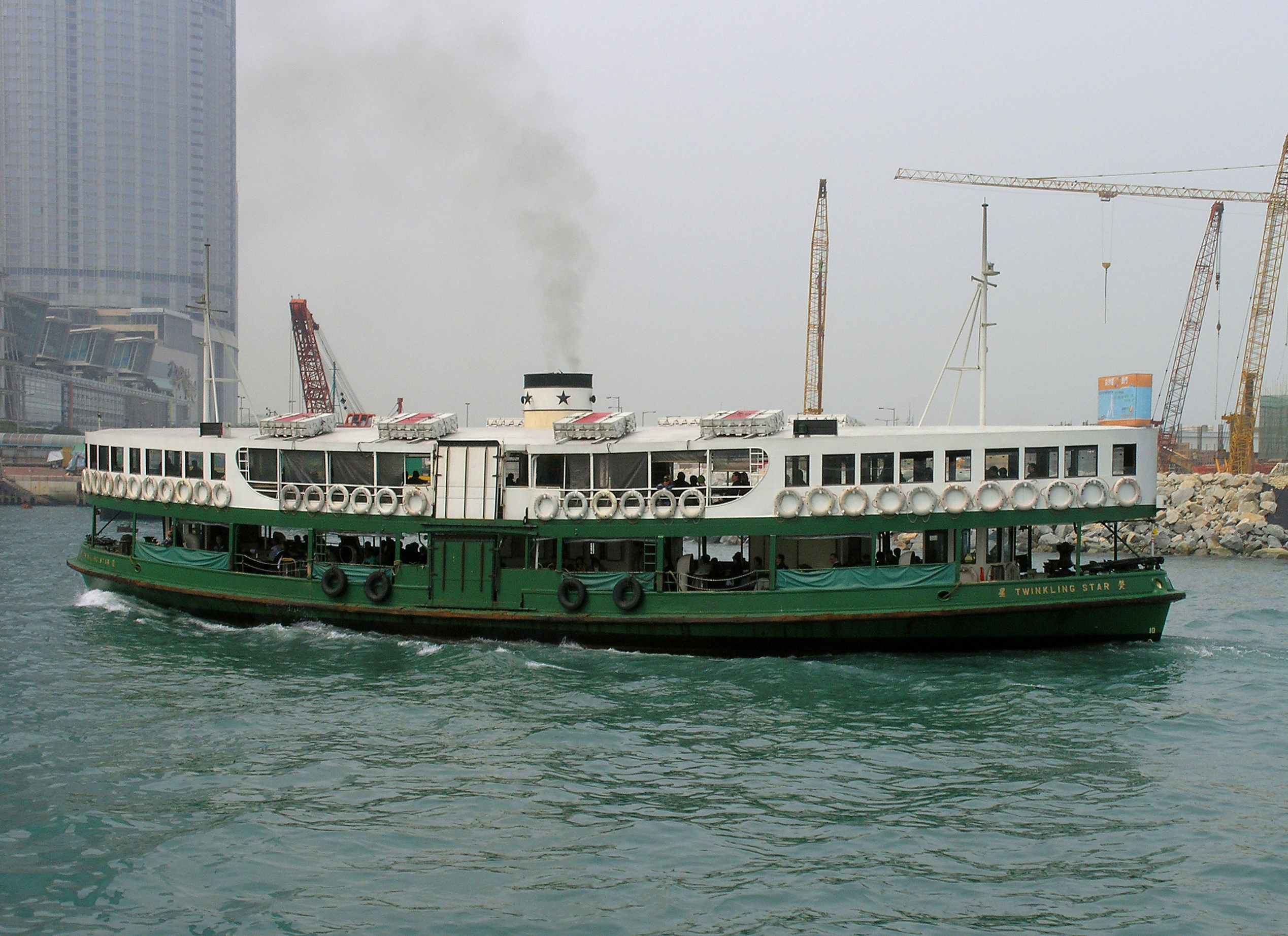 Star Line Ferry serving Hong Kong.